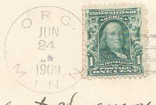 Thus is a scan of a postcard that was processed at the now-defunct Or, Mn, post office in the year 1909